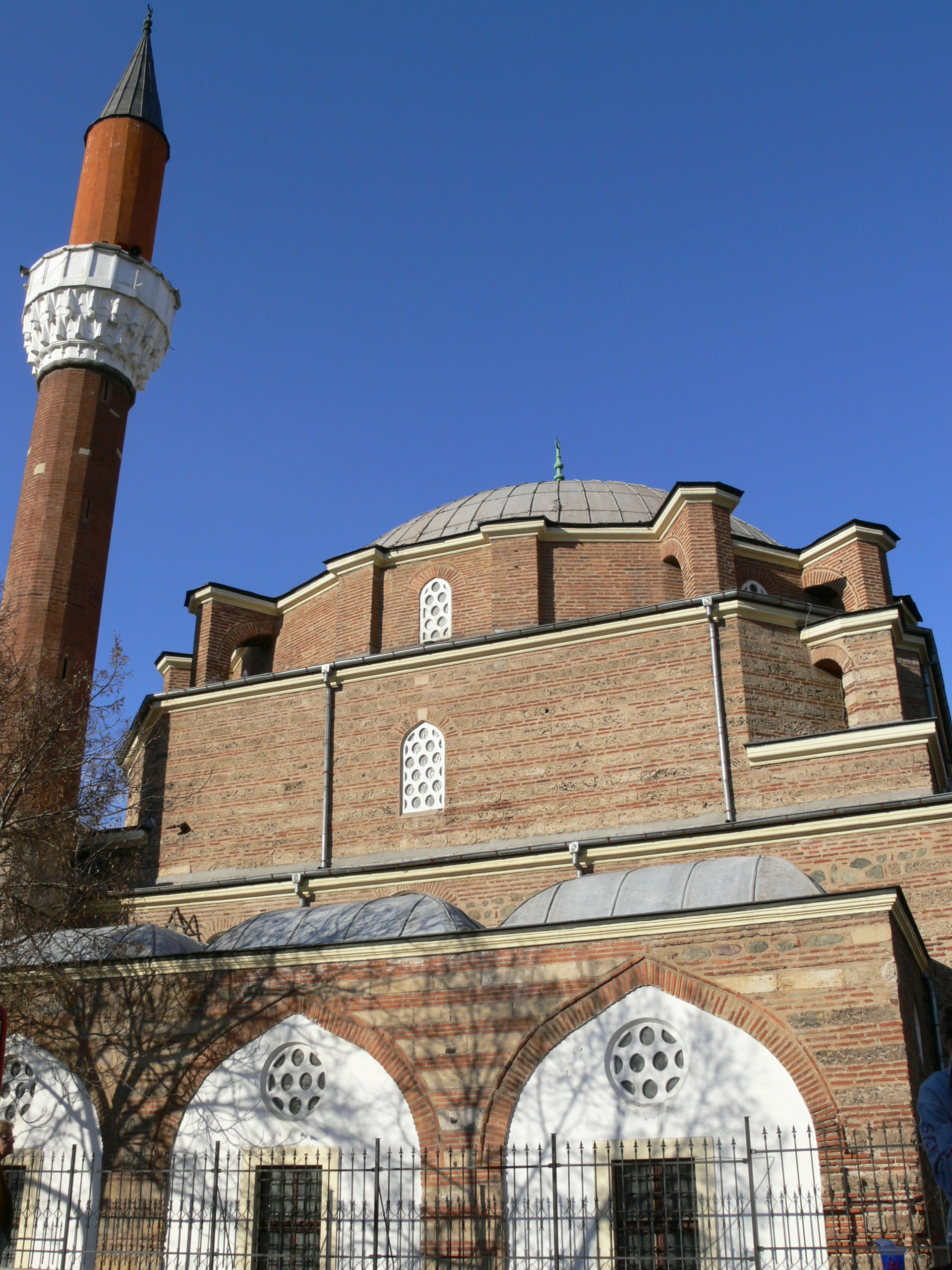 Banya Bashi Mosque, Sofia, Bulgaria